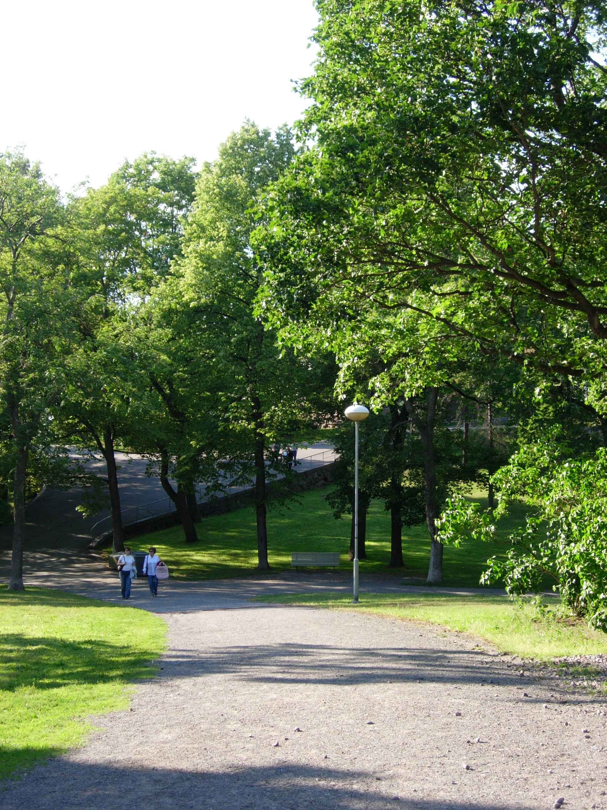 Vartiovuori park in Turku